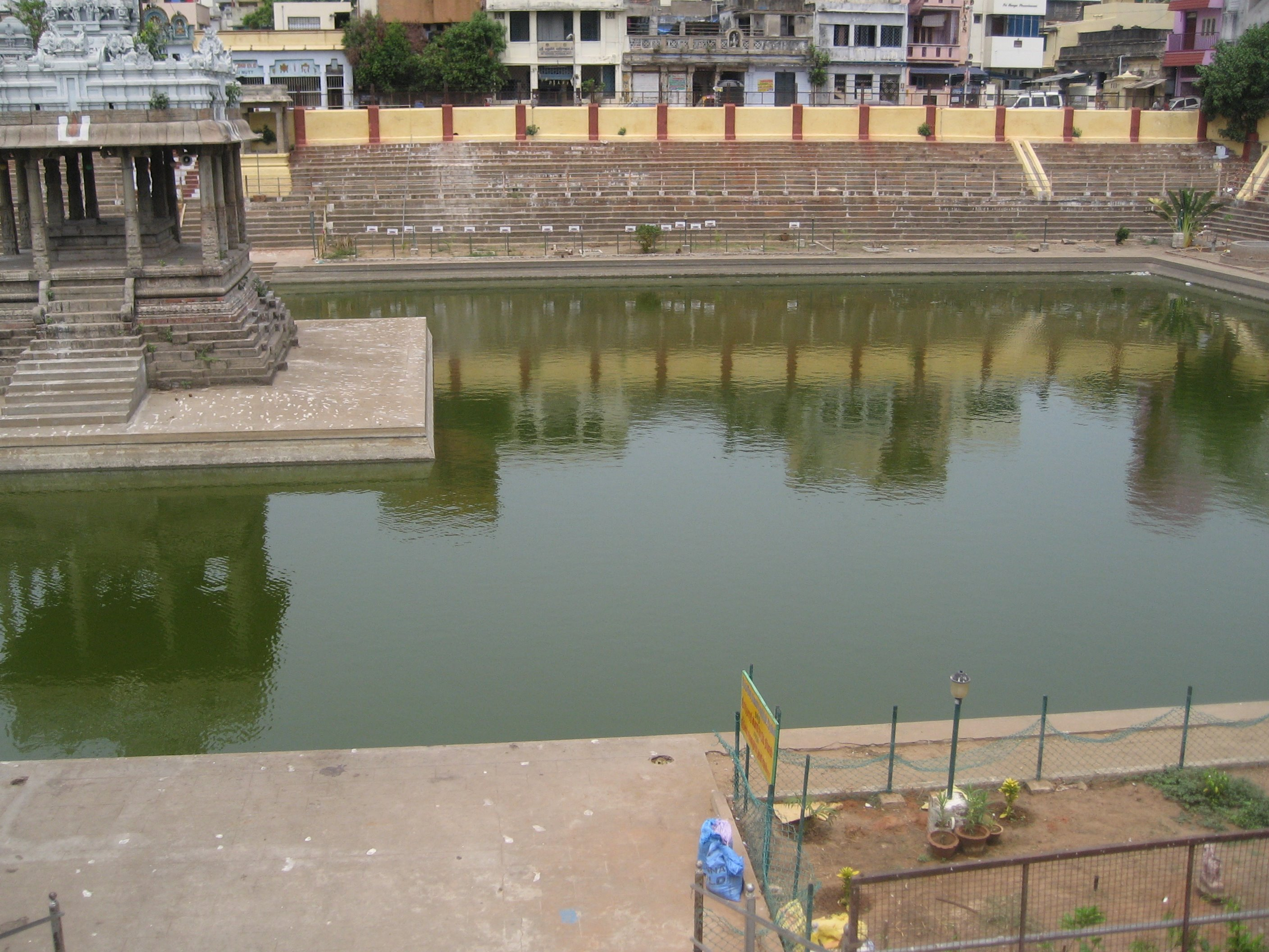 This is the eponymous Triplicane (Sacred Lily) Pond after which the locality of Triplicane (in Chennai, Tamil Nadu, India) is named.